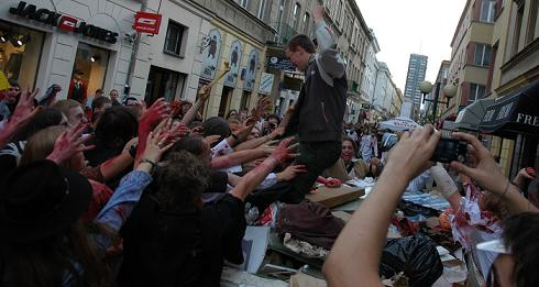 Uczestnicy warszawskiego Zombie Walku "atakujący" fotografa.